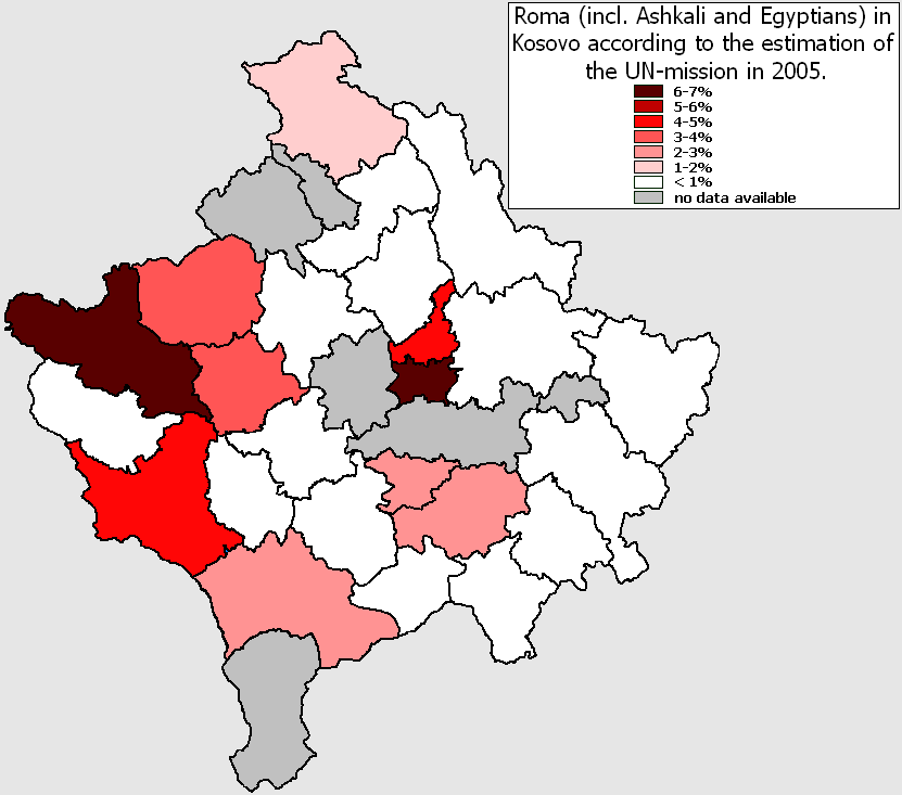 The Roma (incl. Ashkali and "Egyptians") in Kosovo according to the estimation of the UN-mission in 2005